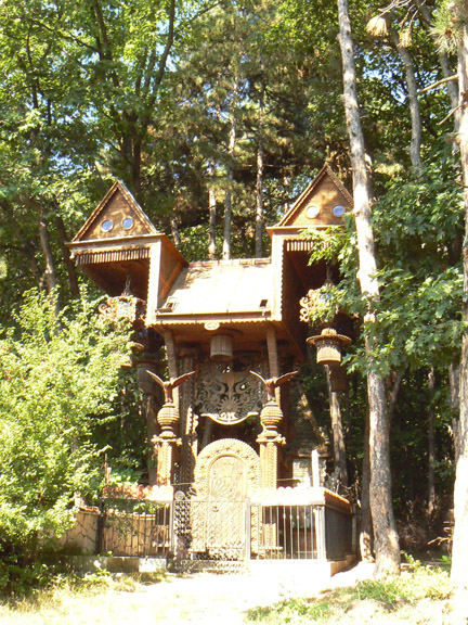 Woodwork house by Racho Angelov in Borisova Garden in Sofia, Bulgaria